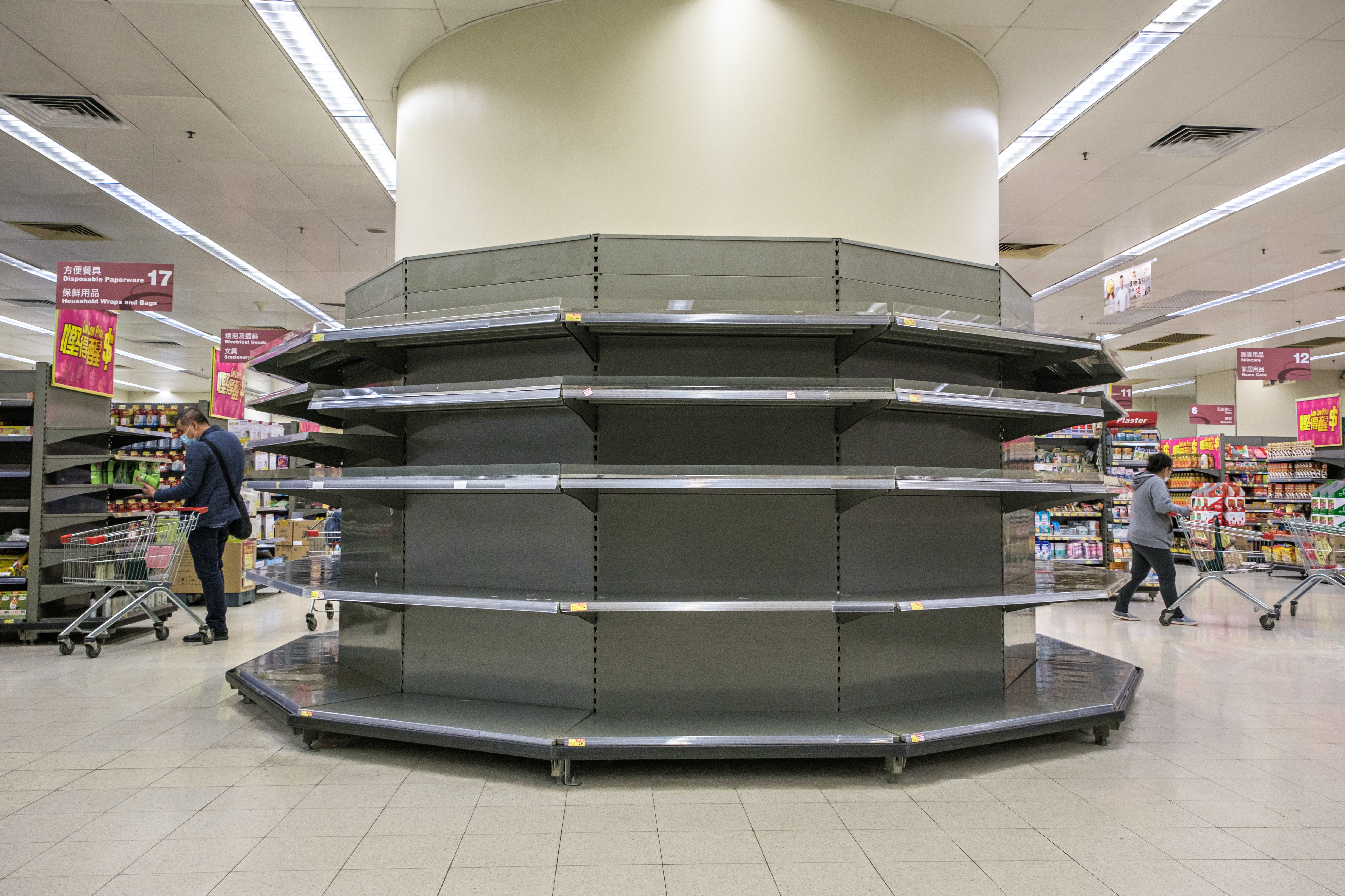 Wellcome supermarket in The Westwood